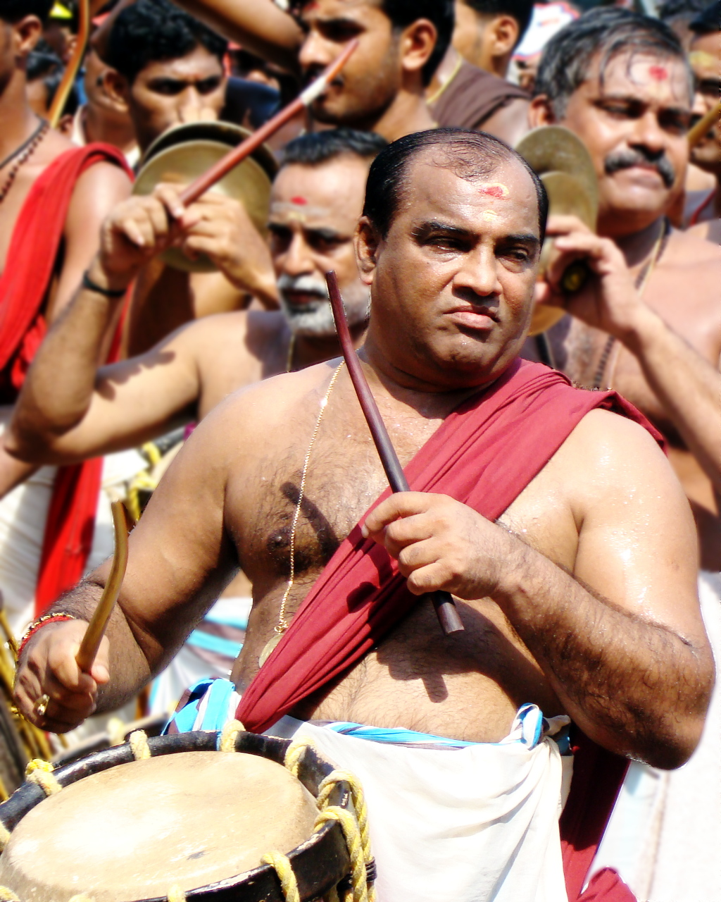 Mattannoor Sankarankutty Marar, Famous Chenda Percussionist of India. A Click from Thrissur Pooram 2010.